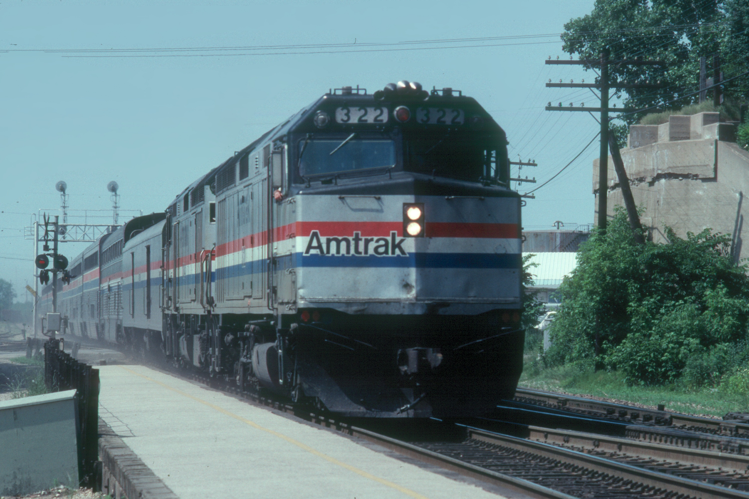 Amtrak F40PHR #322 leads the southbound Empire Builder through Roudout station in July 1983. The station closed the next year. In the background is a abutment for a former Milwaukee Road branch.